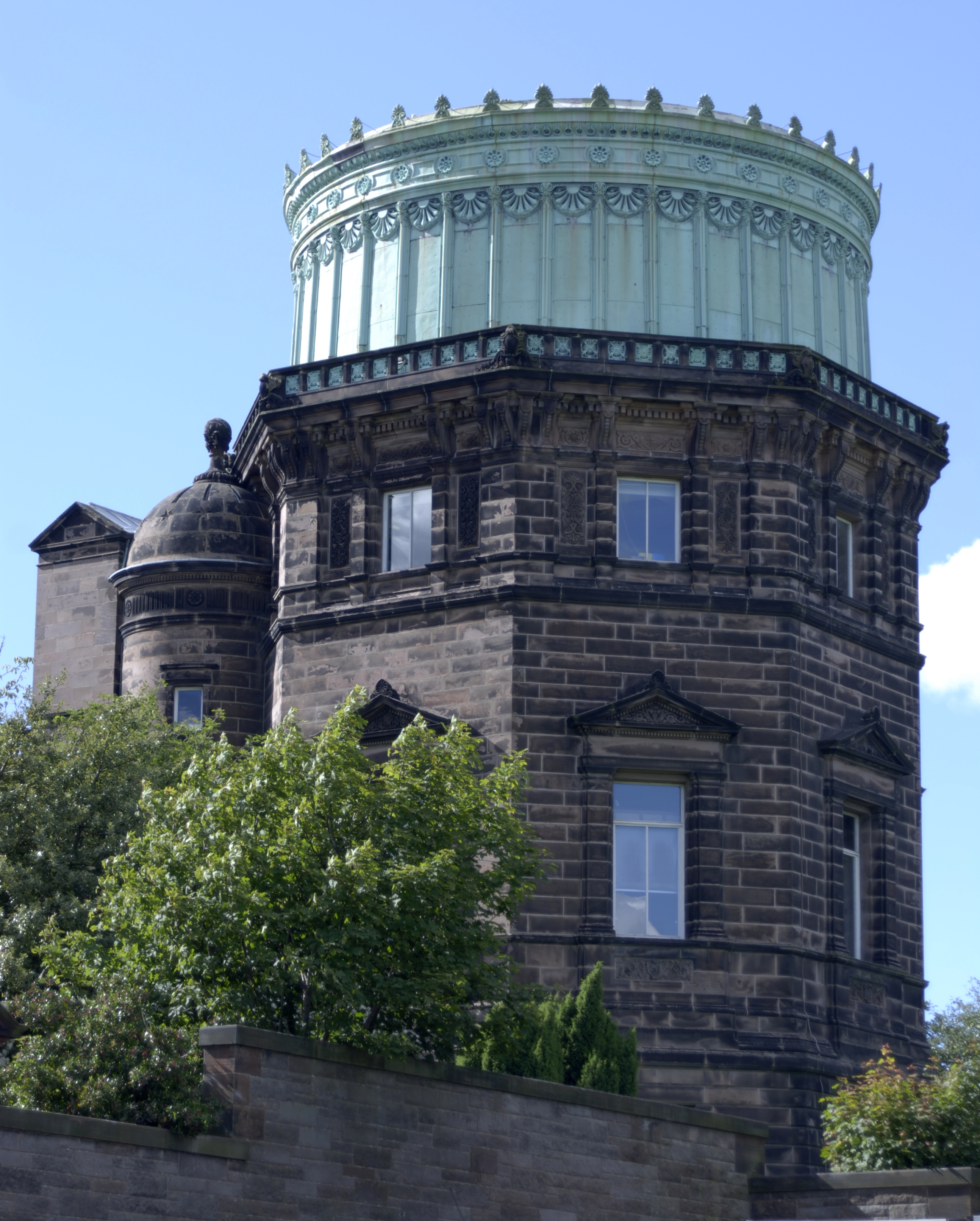 The tower of the Royal Observatory, Edinburgh